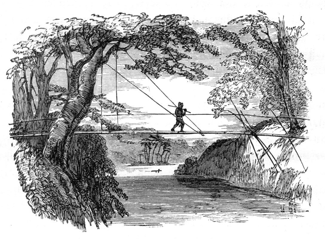 Caption reads "Dyak crossing a bamboo bridge".